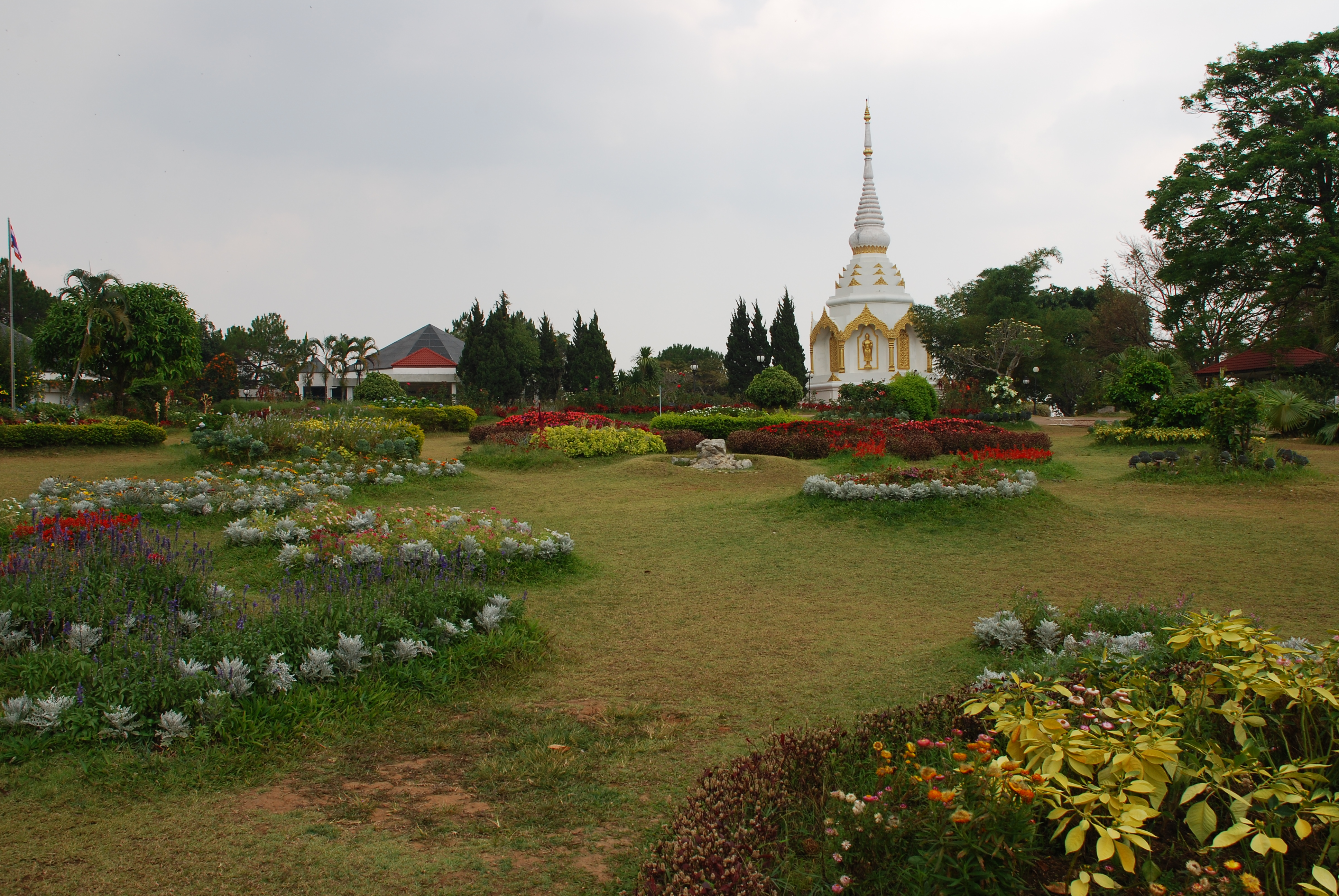 Khao Kho International Library